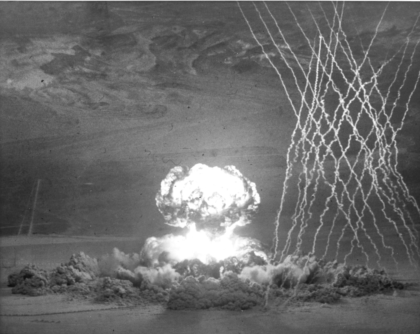 Operation Teapot - MET shot